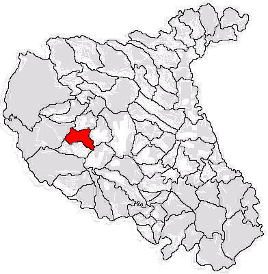 Map of limits of commune in Vrancea County